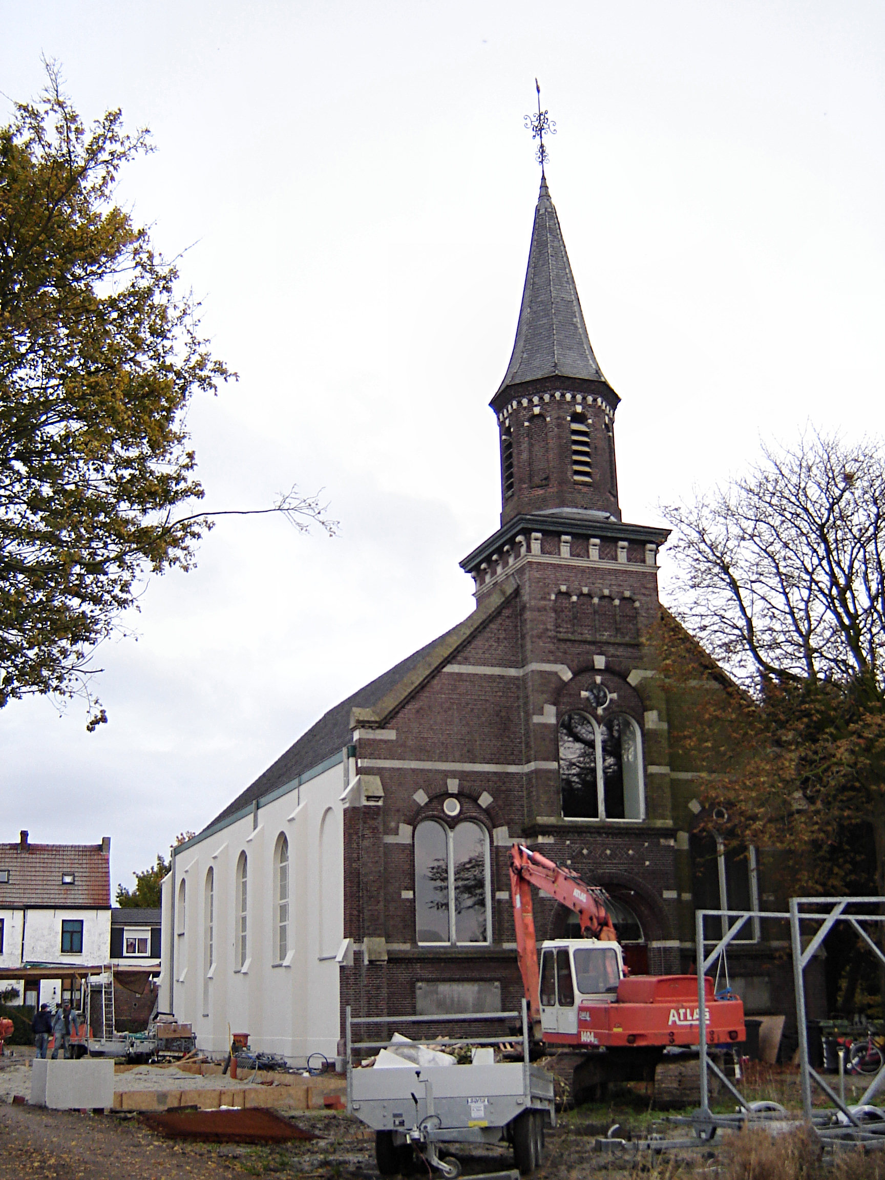 Nederlands Hervormde Kerk (Dutch Reformed Church) in Sas van Gent. Not more used for services, but reconverted for commercial and residential use. Sas van Gent, Terneuzen, Zeeland, the Netherlands